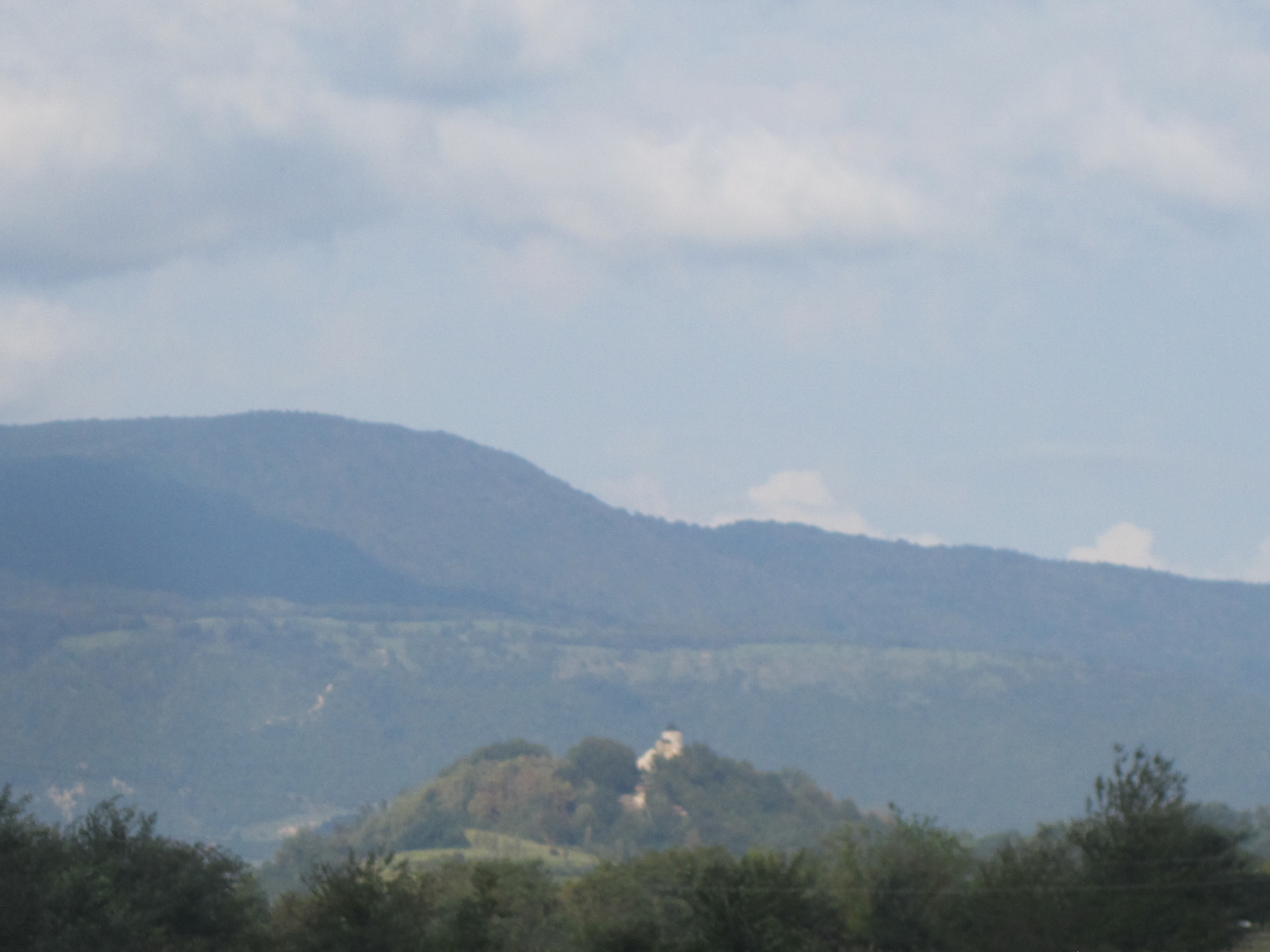 Martvili Monastery